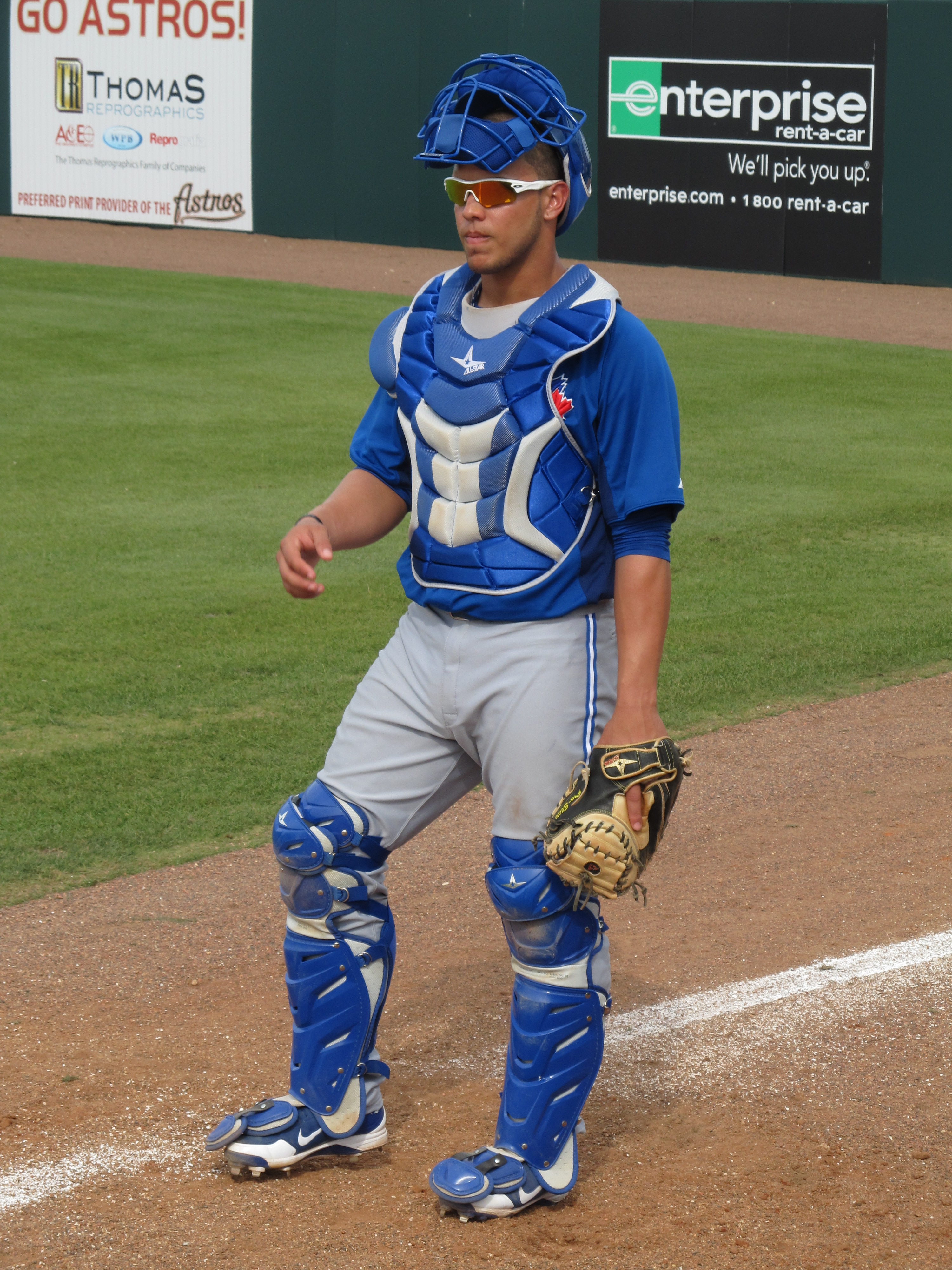 A. J. Jiménez